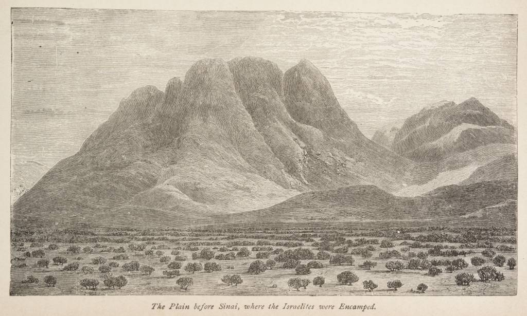 A scenic picture of a field with a large mountain rising in the background.